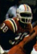 New England Patriots' safety Roland James pictured in a defensive play against the Chicago Bears in Super Bowl XX.